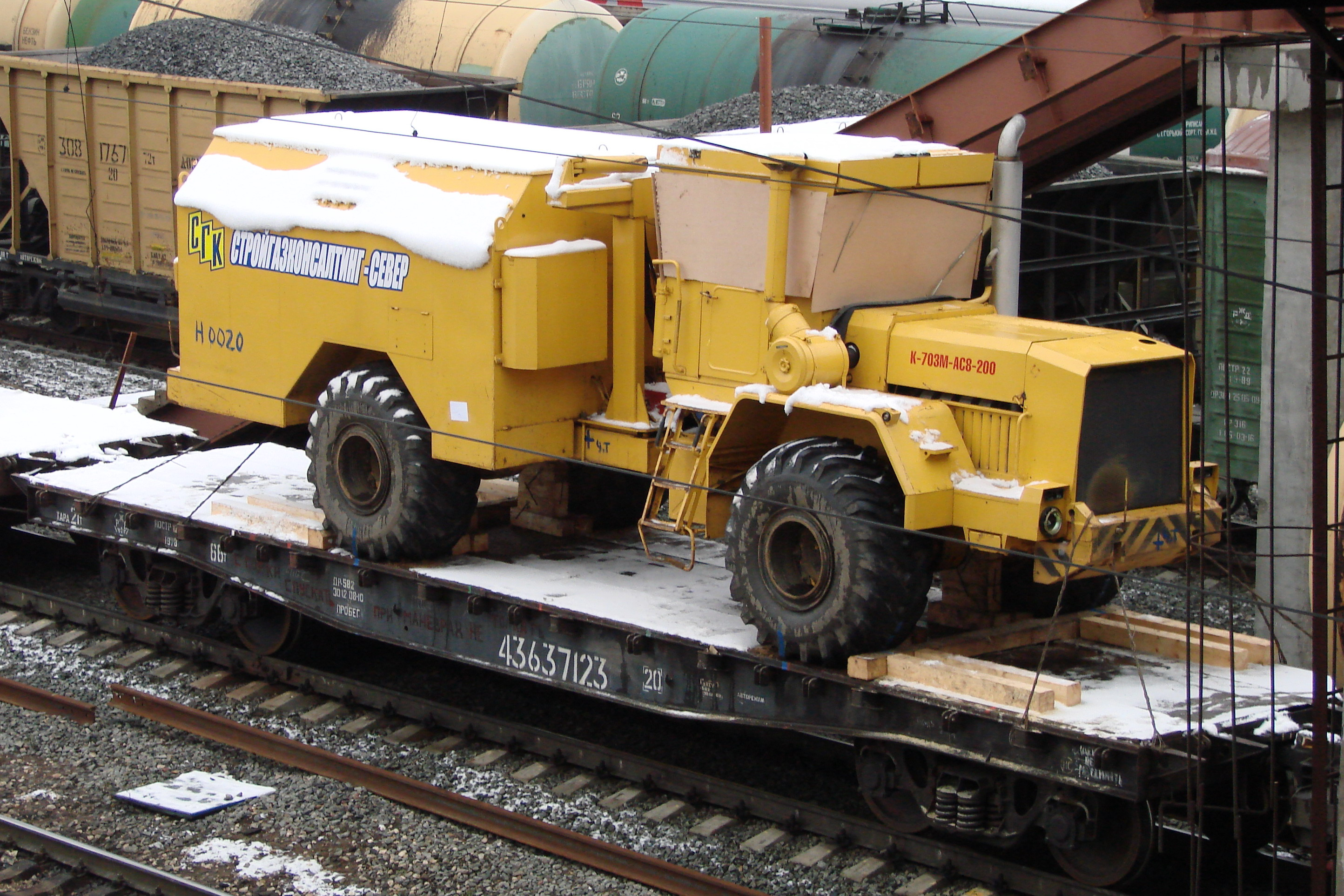 transporting Tractor К-703М-АS8-200 in Russia